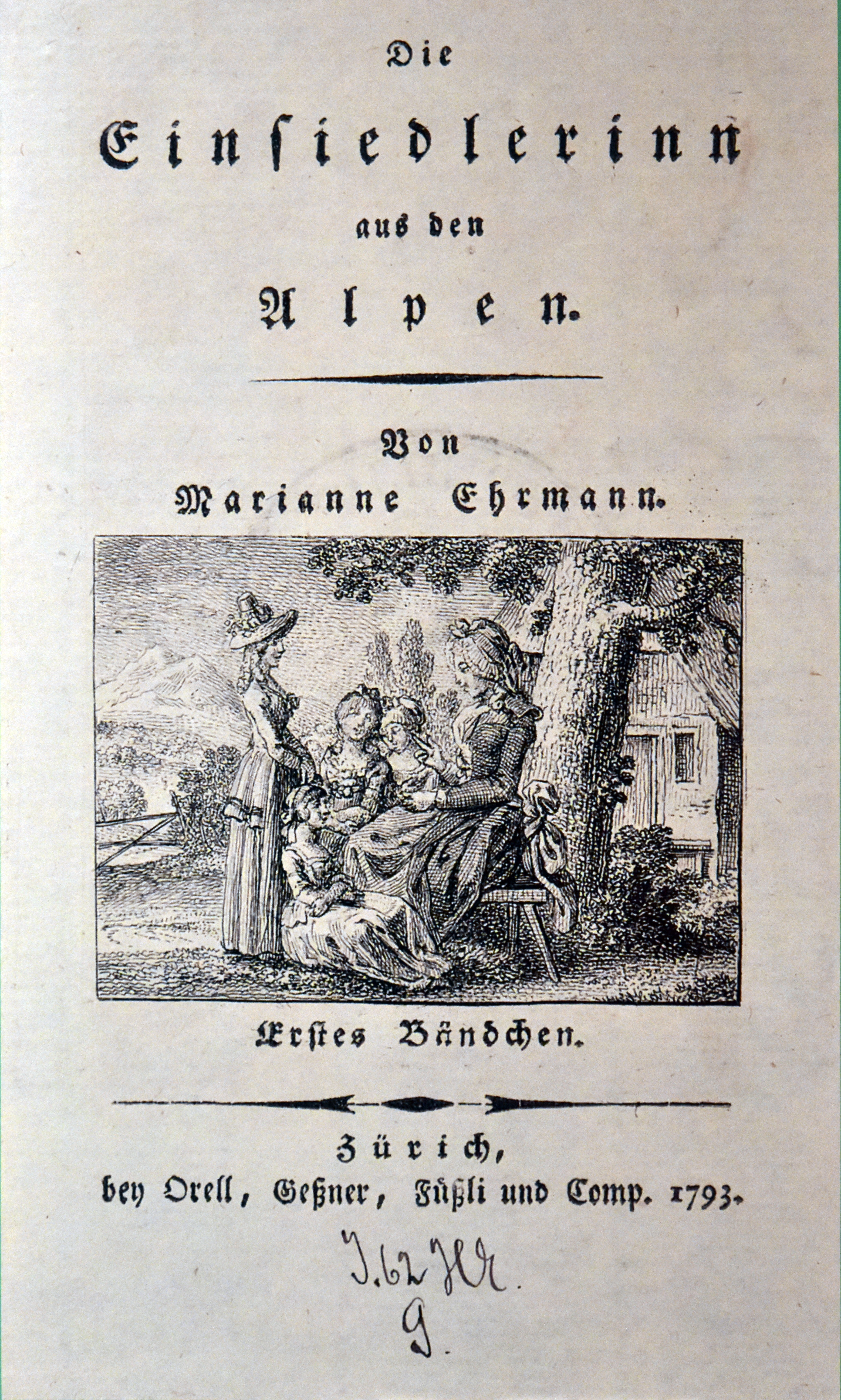 Collection of the Stadtmuseum) in Rapperswil (Switzerland): Ausstellung Der Zeit voraus. Drei Frauen auf eigenen Wegen. Marianne Ehrmann-Brentano Schriftstellerin und Journalistin (1755–1795) ++ Alwina Gossauer Fotografin und Geschäftsfrau (1841–1926) ++ Martha Burkhard Globetrotterin und Malerin (1874–1956) : Marianne Ehrmann-Brentano, Titelseite von Marianne Ehrmanns Zeitschrift «Die Einsiedlerin aus den Alpen», Erstes Bändchen, Zürich 1793.